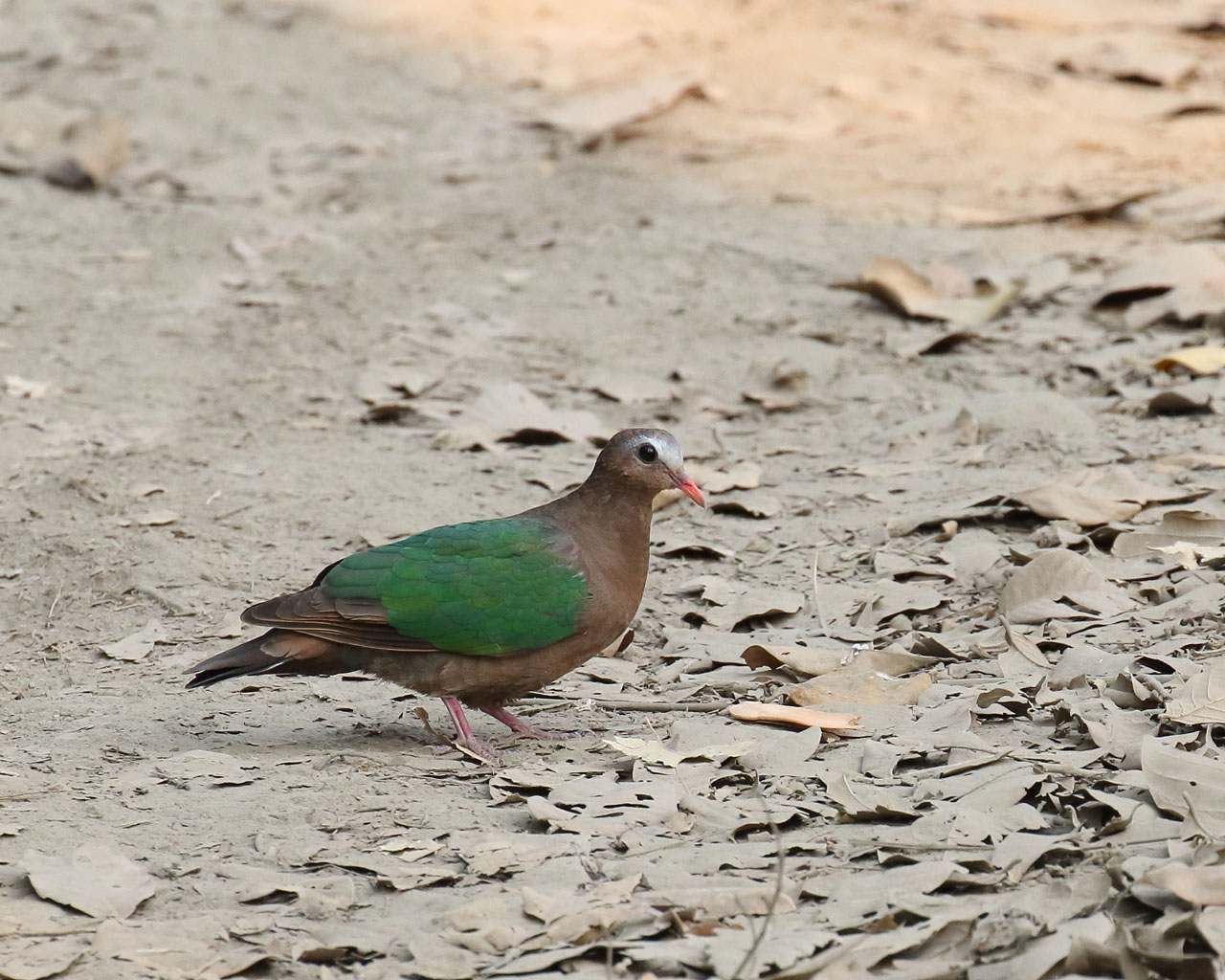 Common emerald dove, Kaziranga, India